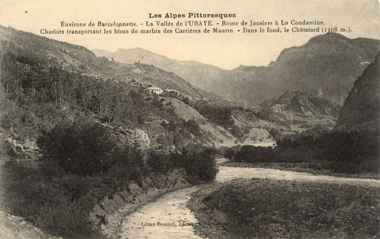 Chariots transportants les blocs de Marbre de Maurin